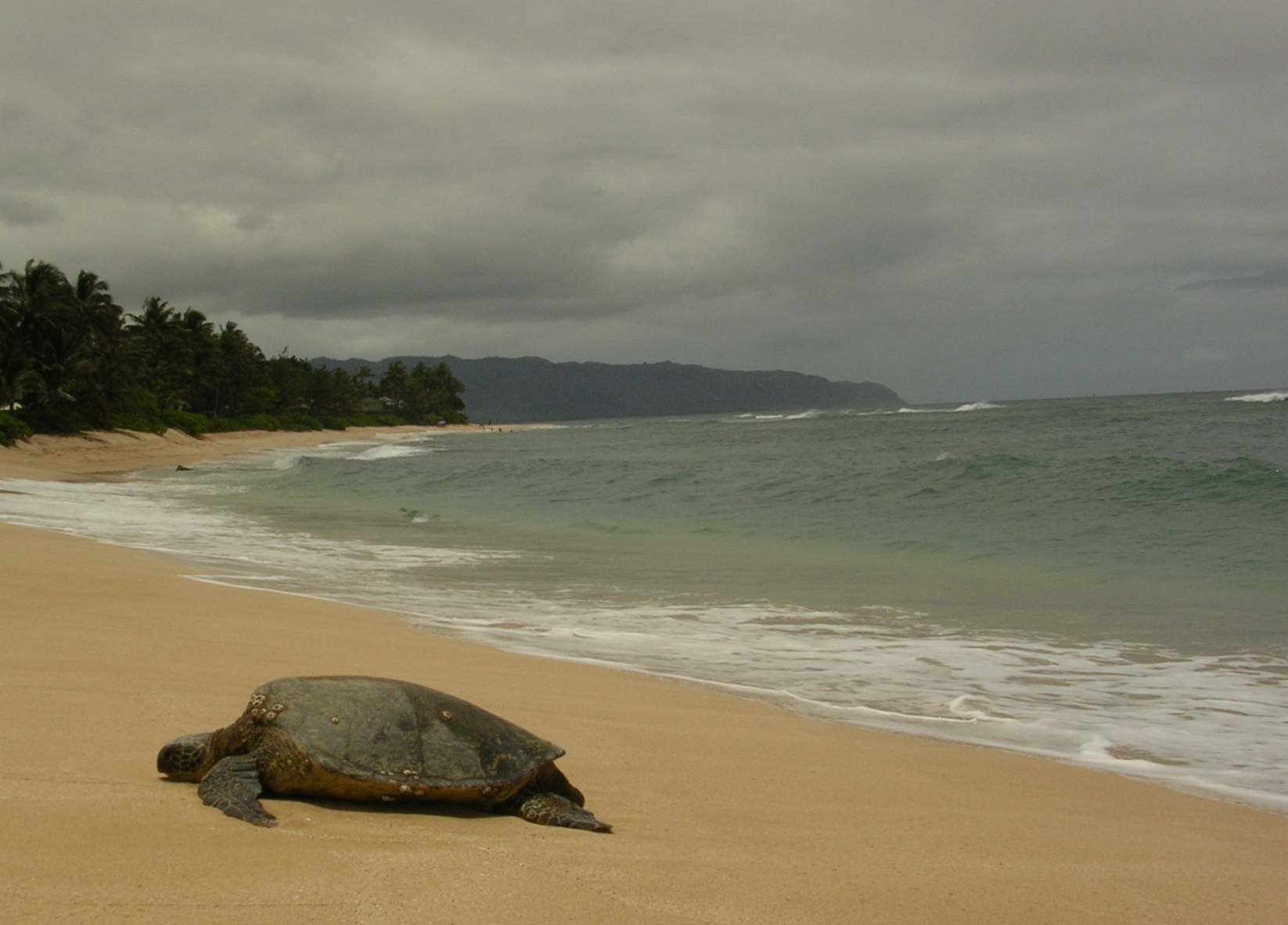 A Green Sea Turtle (Chelonia mydas) or Honu, rests in the sun at the island of O'ahu Photo by Caracas1830 (2006)